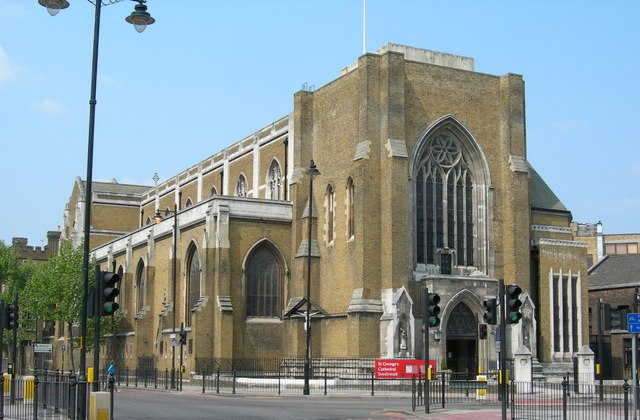 St George's Cathedral, Southwark, at the corner of Lambeth Road and St George's Road. Cathedral website